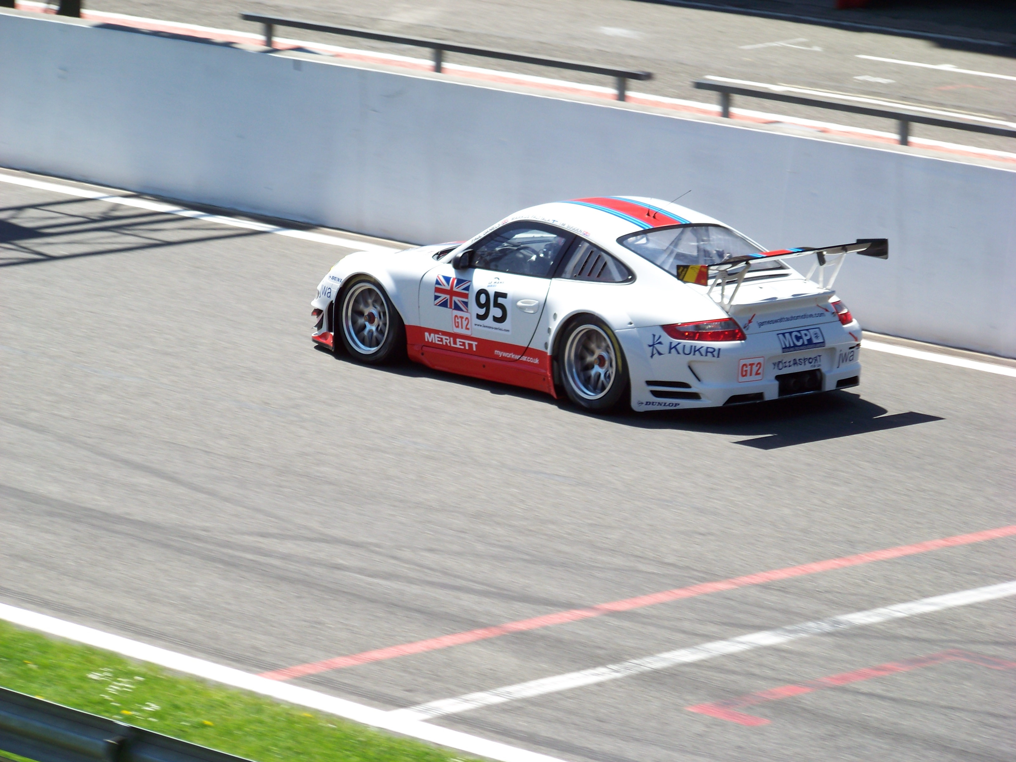 James Watt Automotive's Porsche 997 GT3-RSR at the 2008 1000km of Spa.